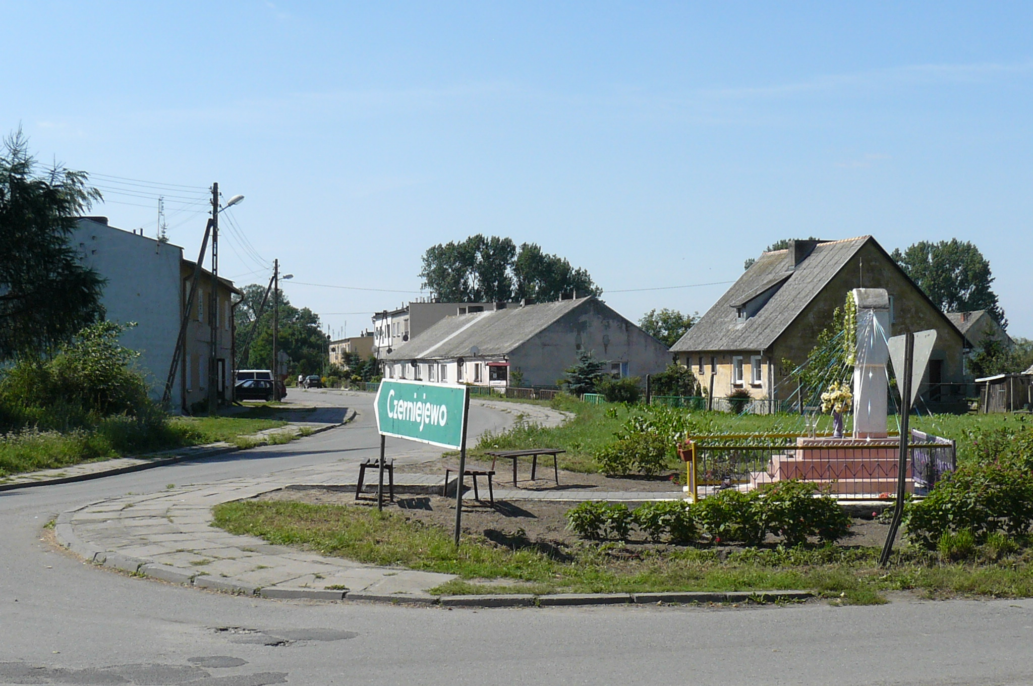 Jelitowo, PL.